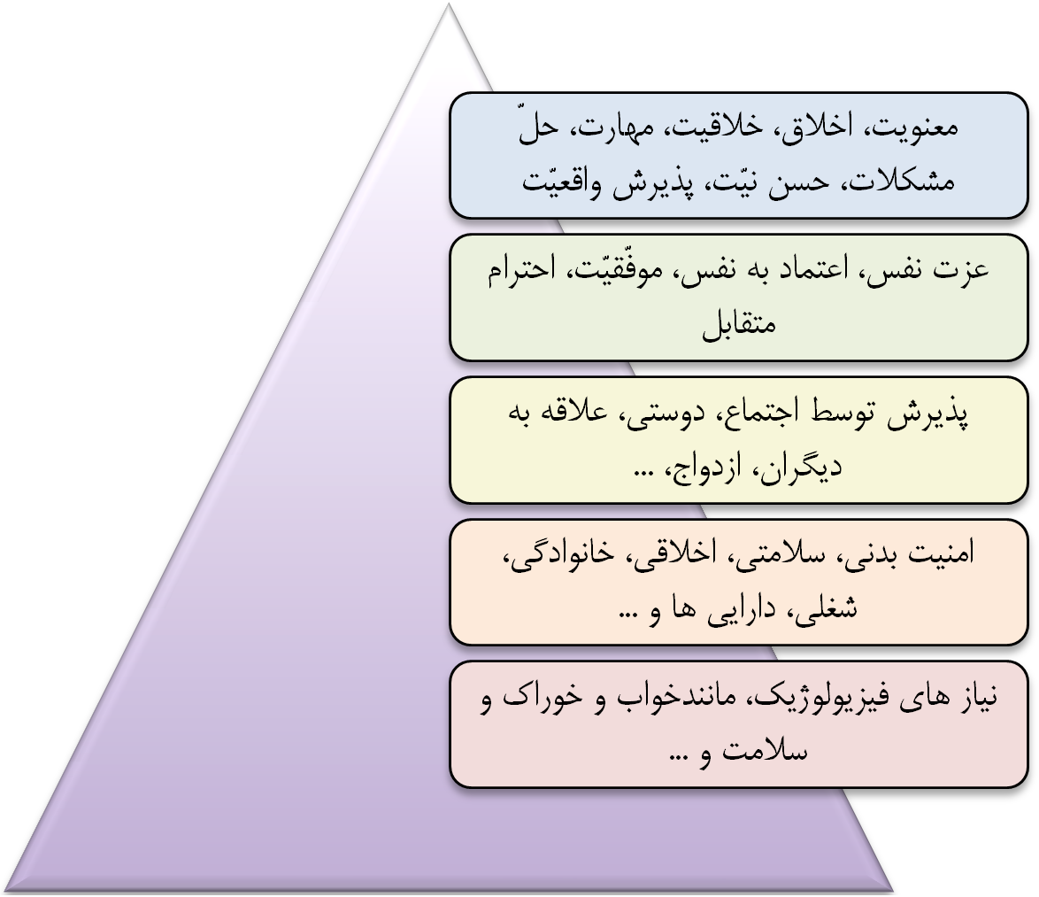 It's Maslows Diagram of Needs